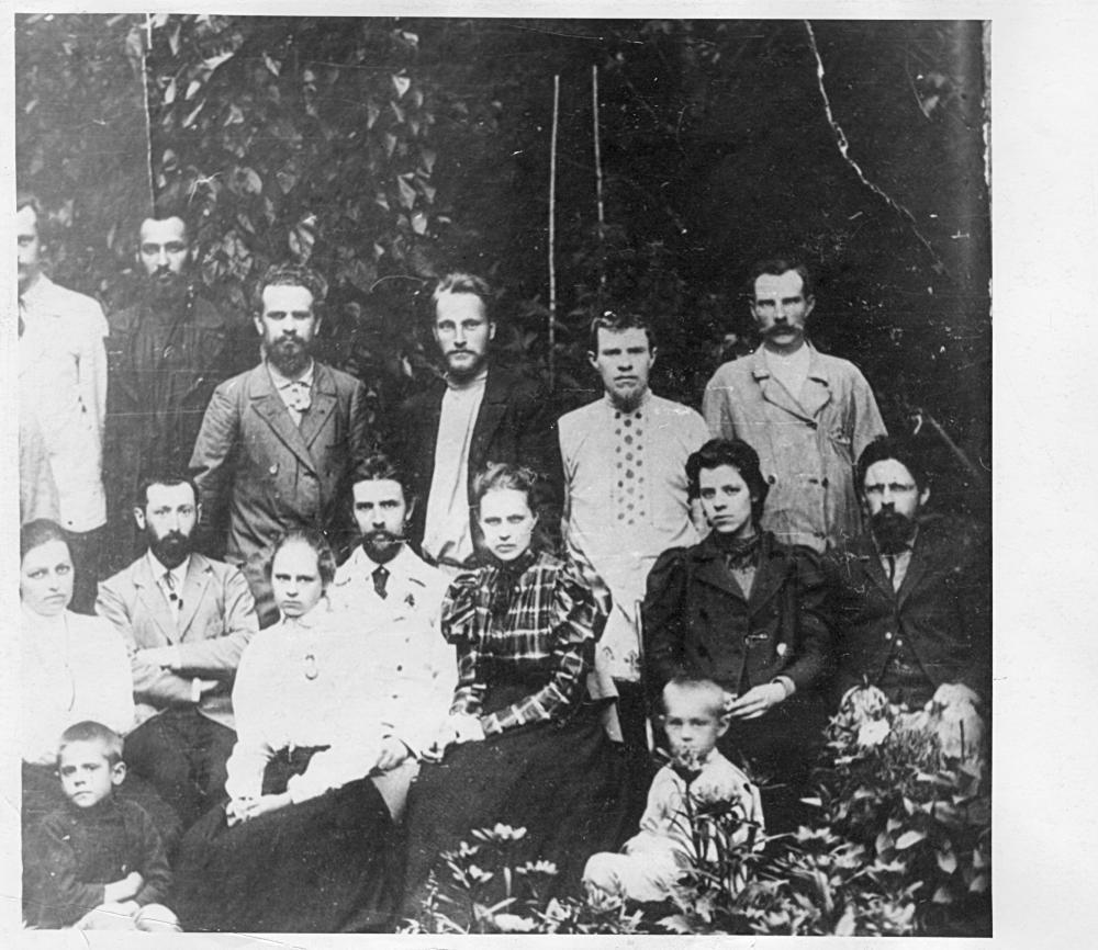 Russian political exiled persons in Orlov city of Vyatka region. Second line, second from the left - A. Kuznetsov (son of mayor of the town), third from the left is D. Telyatinskiy (Д. Телятинский), fourth - Nikolay Bauman, fifth - Vasiliy Mitrov (?); first line, second from the left is Fedor Dan, fourth - Wacław Worowski (?), fifth - Klavdiya Prikhodkova (in checkered shirt)